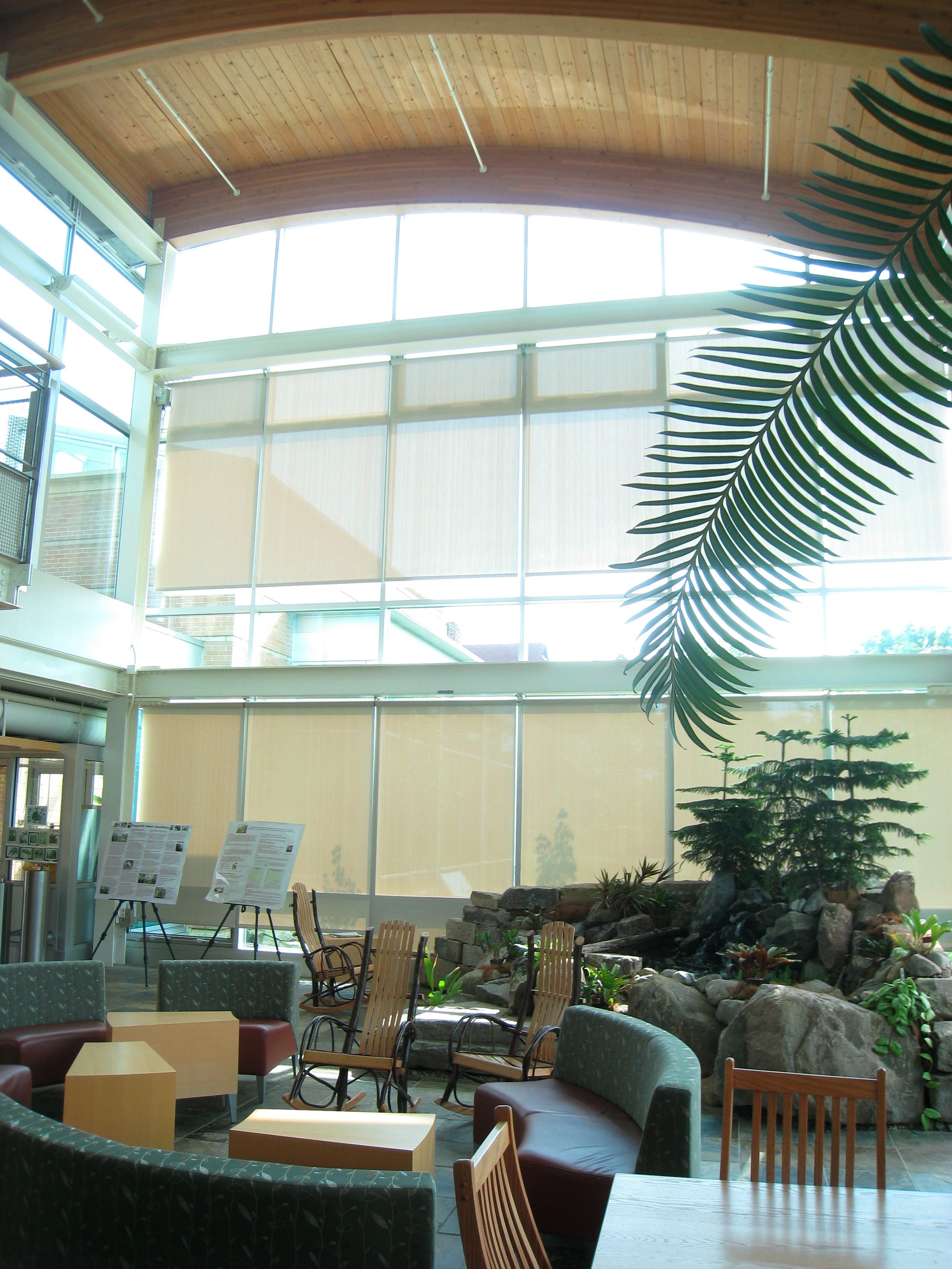 Lewis Center (interior view), Oberlin College, Oberlin, Ohio, USA. I took this photograph.